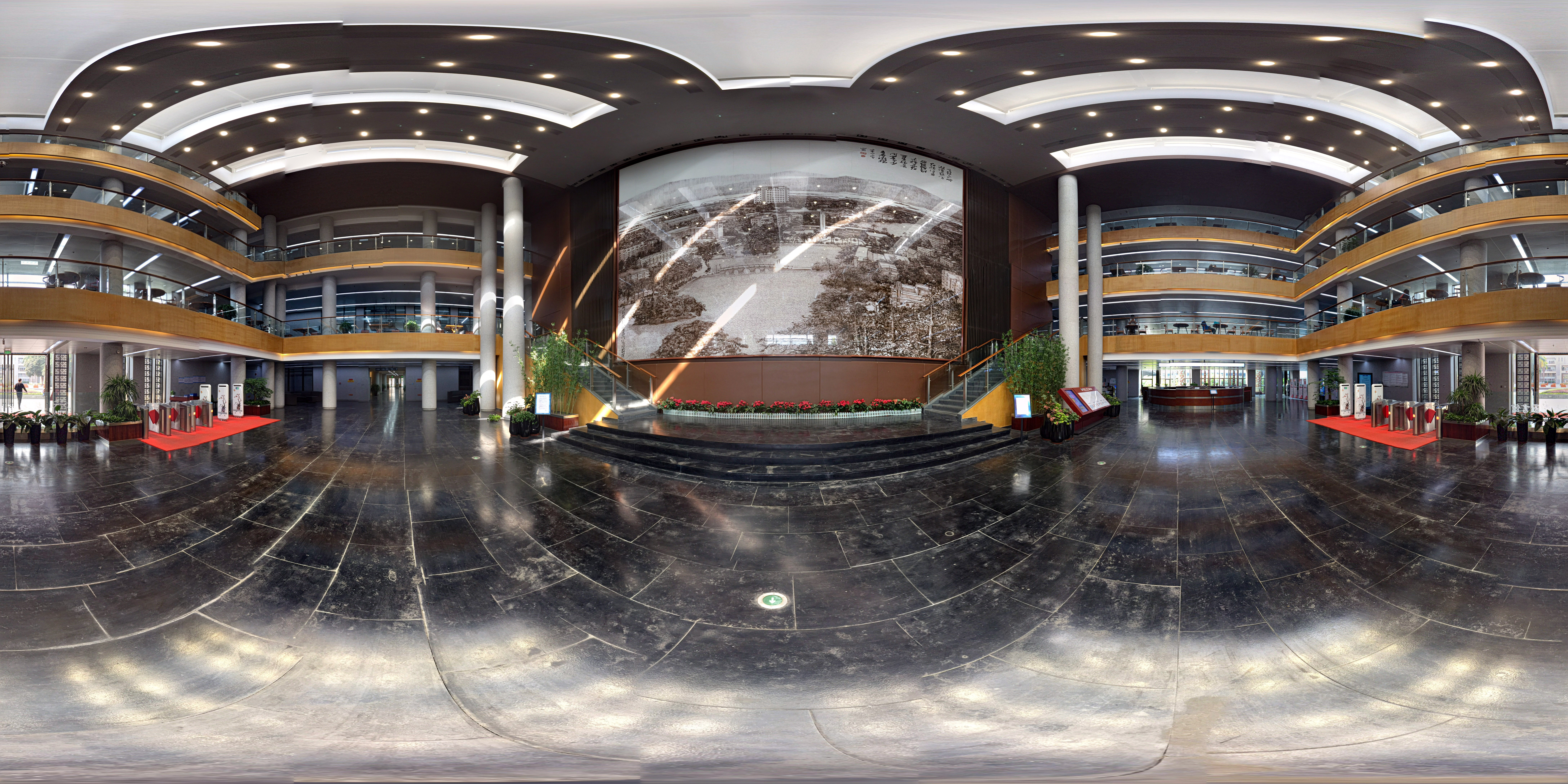 Spherical photo of South China University of Technology Library Lobby.